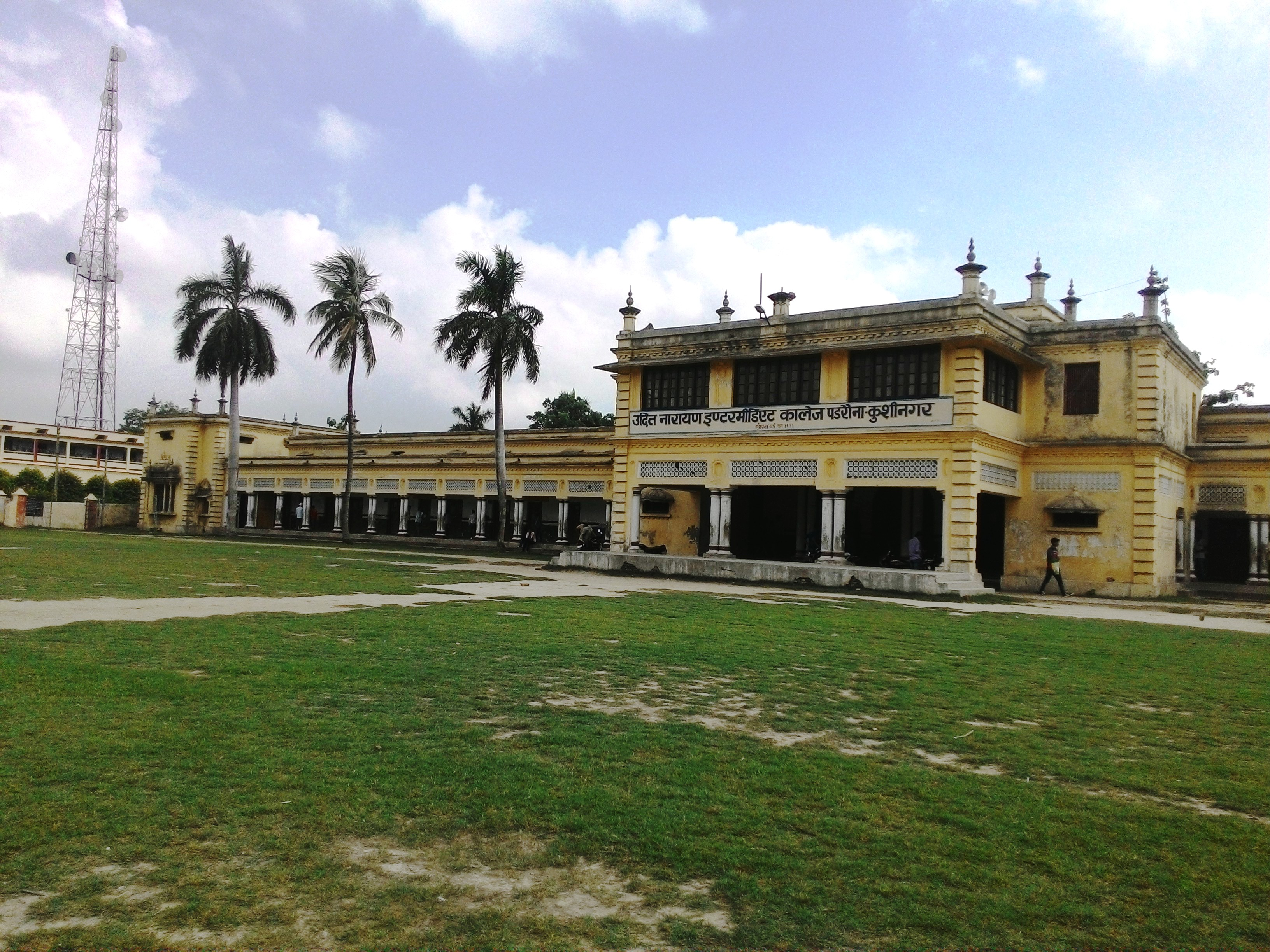 Udit Narayan Intermediate College, Padrauna, Kushinagar.